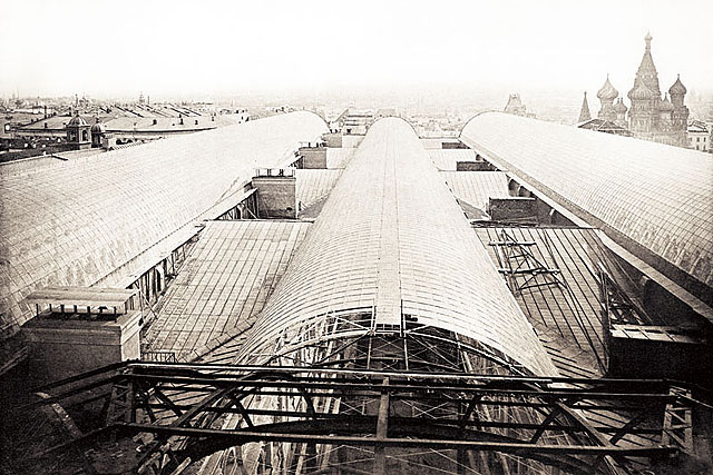 The Structure of the Roof of Upper Trading Rows (Moscow GUM) under construction, view from above - 1892. The is design of a unique roof from glass and metal constructed under the project of the great engineer and architect Vladimir Grigorevich Shukhov.